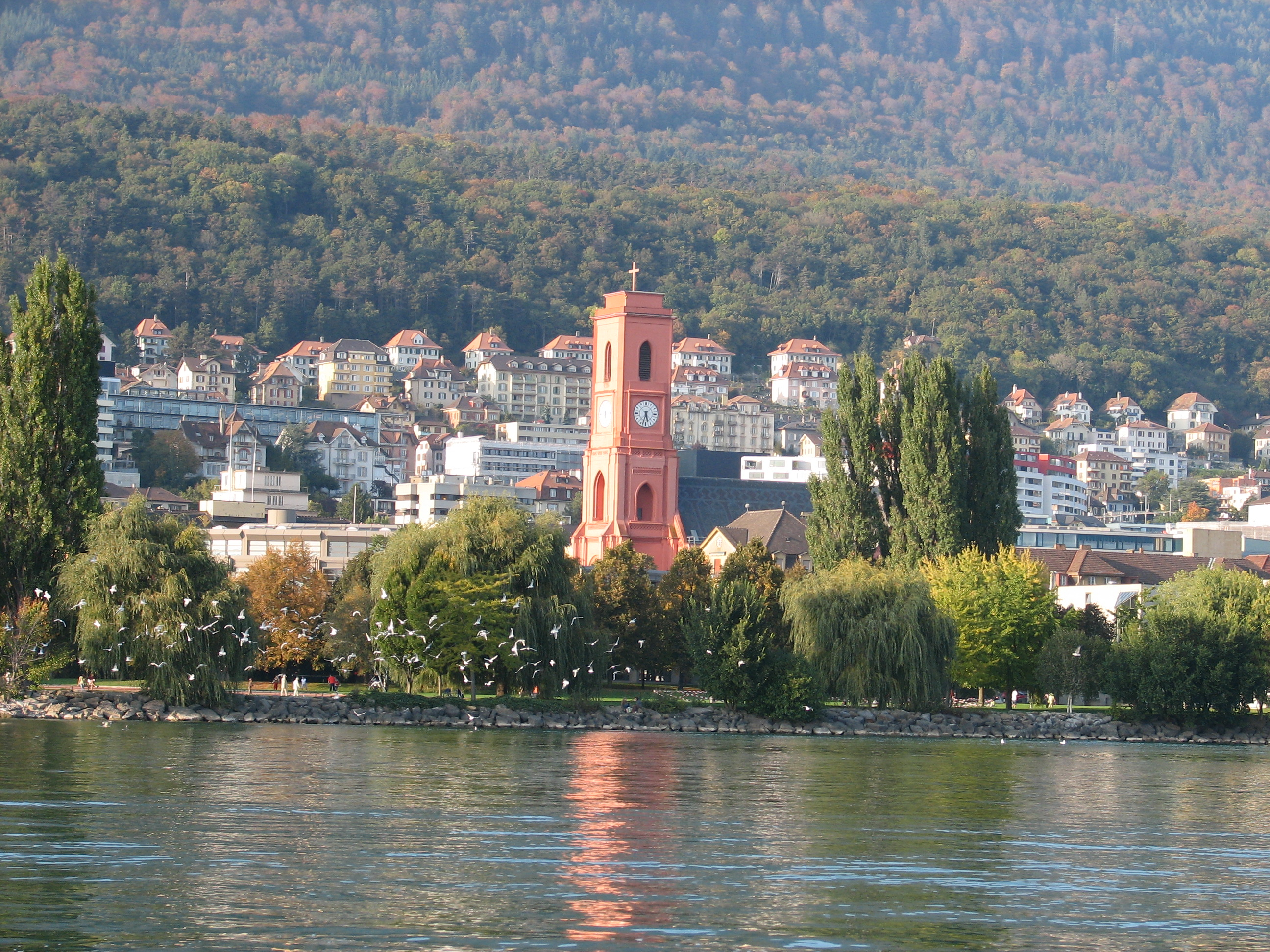 "Notre Dame" basilic, Neuchâtel. "red church"